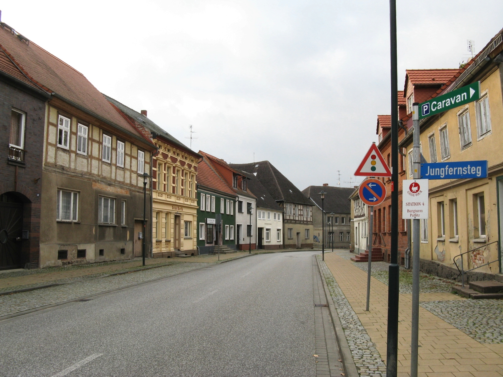 Putlitz, Brandenburg, Germany